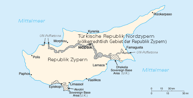 Map of Cyprus